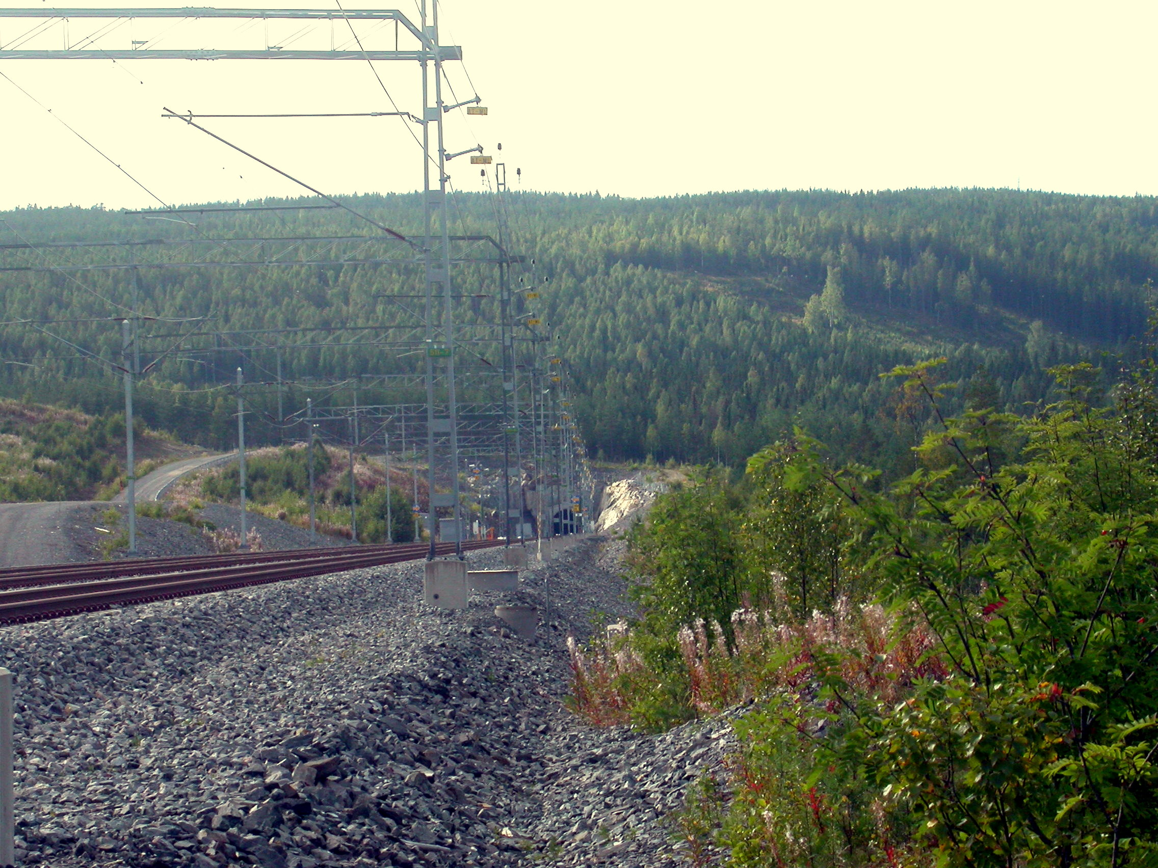 Passing station Hämrasviken on Bothia railway line in Sweden, with the Namntall tunnel at distance.